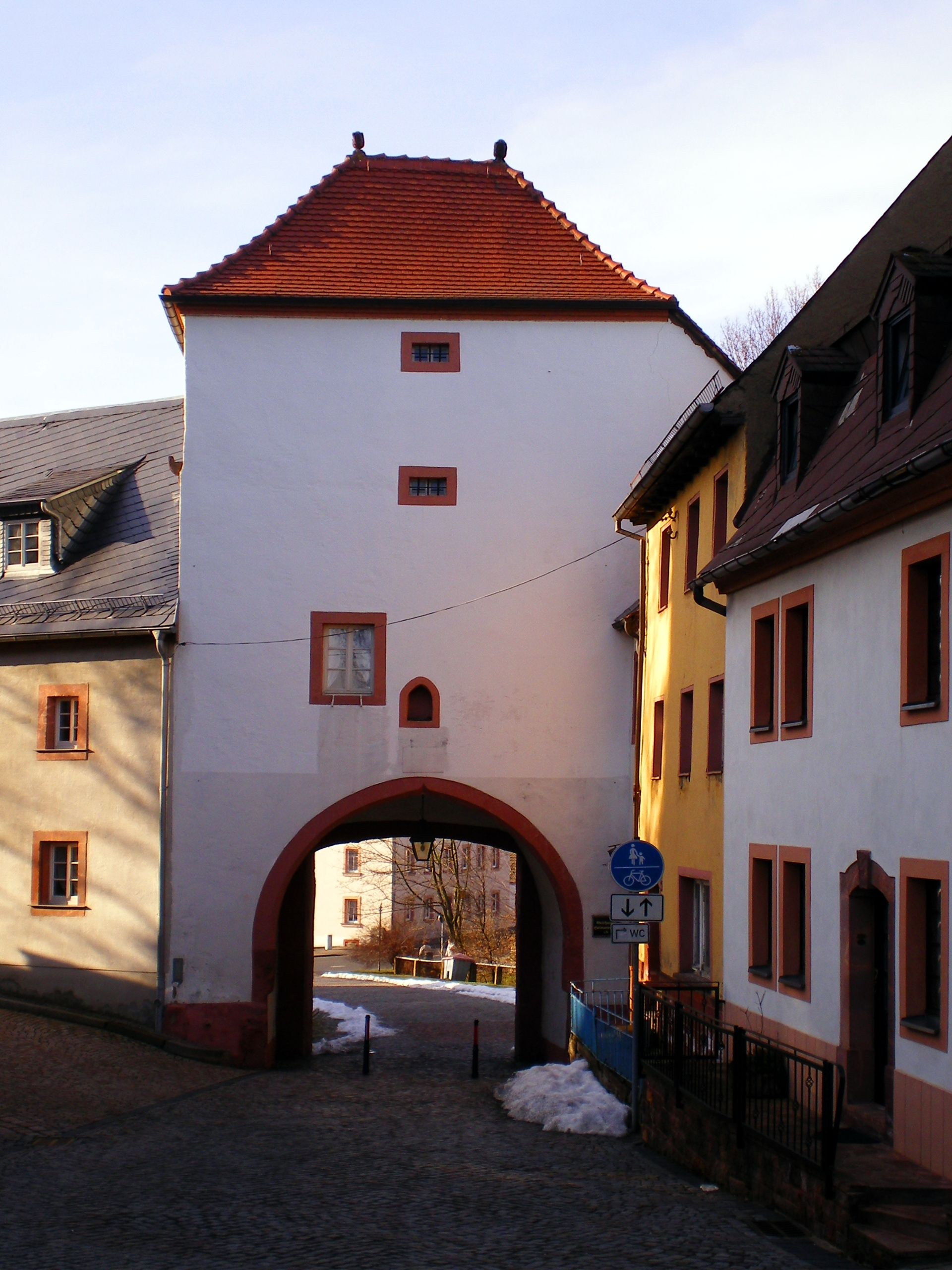 Lower town gate in Geithain near Leipzig